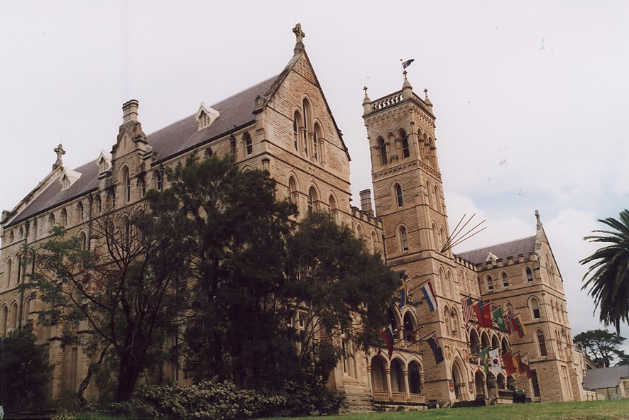 St Patricks College Manly